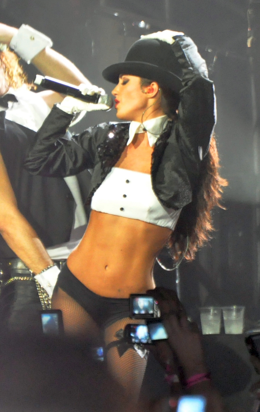 Anahí Puente performing in Sao Paulo - Via Funchal, March 2011.